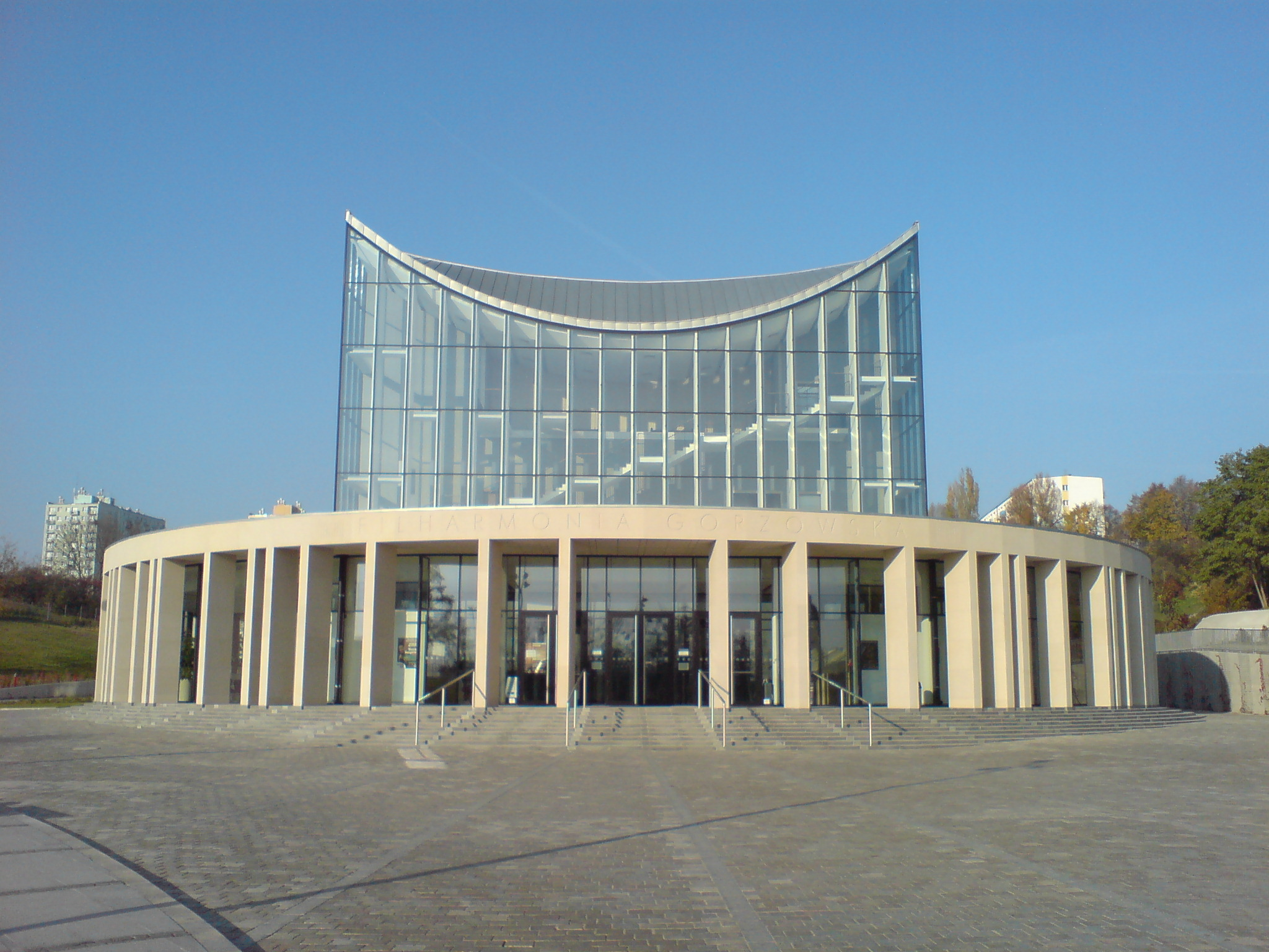 Philharmonic in Gorzow Wlkp.